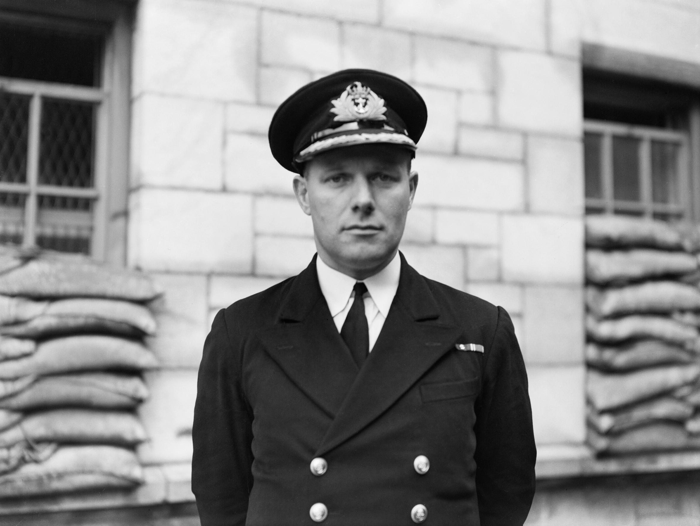 Victoria Cross Winners- 1939-1945. Portrait of Anthony Cecil Capel Miers, awarded the Victoria Cross: HM Submarine TORBAY, 4 March 1942.